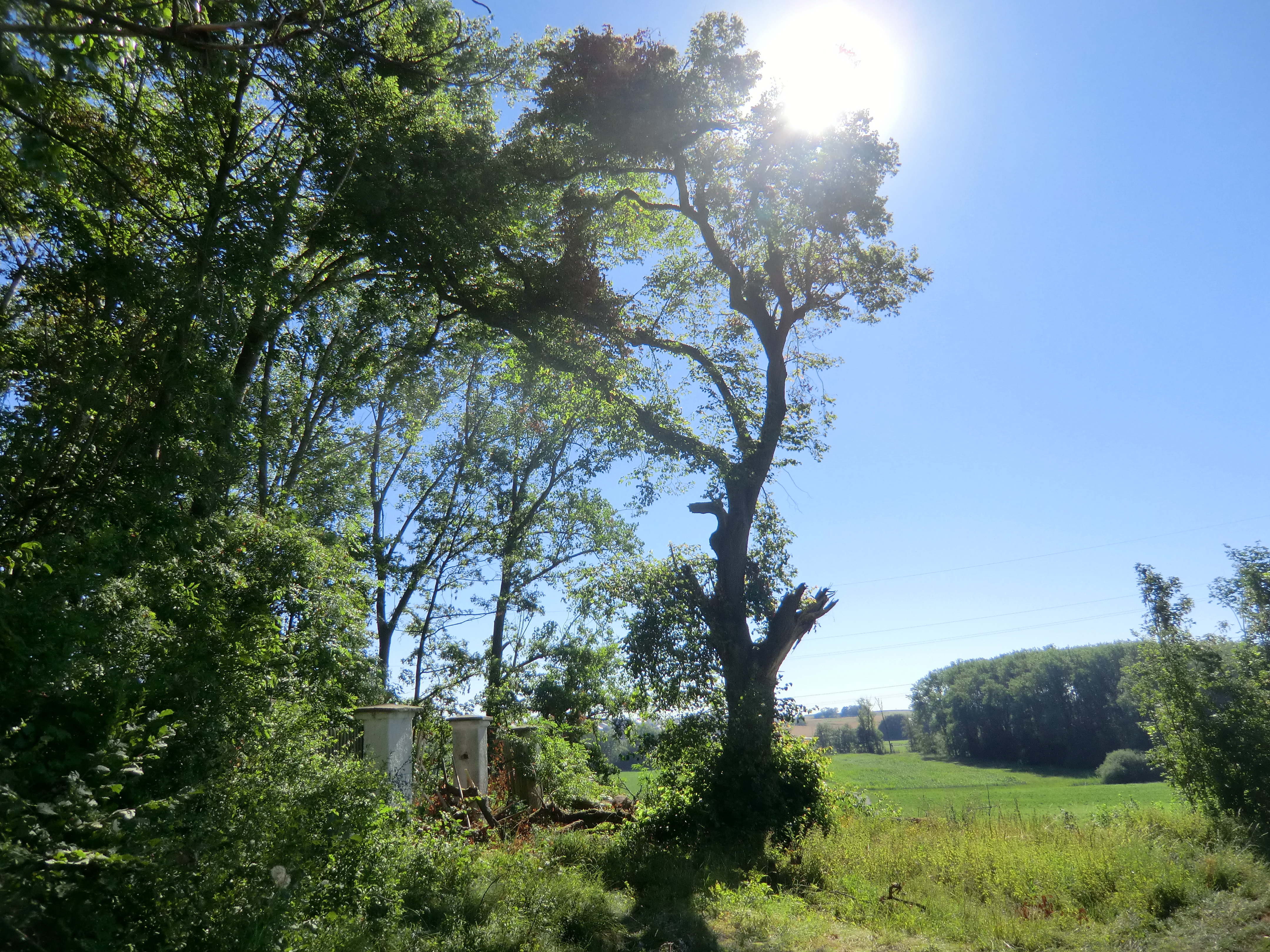 Lime tree at Gailenbach Castle